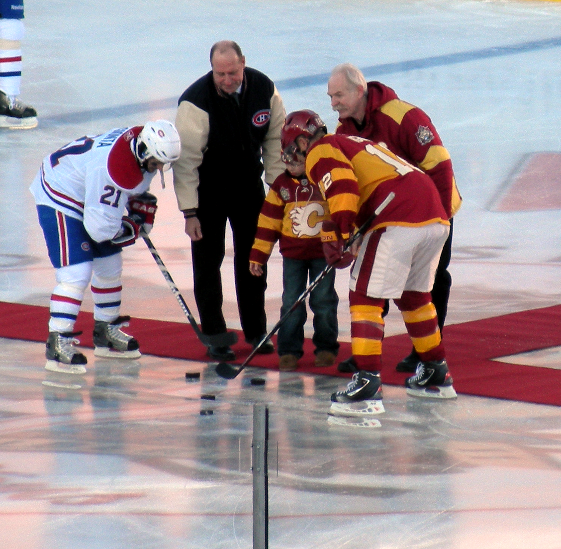 The ceremonial face off prior to the start of the 2011 Heritage Classic at McMahon Stadium in Calgary. Players are Calgary captain Jarome Iginla and Montreal captain Brian Gionta. Montreal Hall of Famer Bob Gainey, Calgary Hall of Famer Lanny McDonald and McDonald's seven-year-old grandson are dropping the pucks.